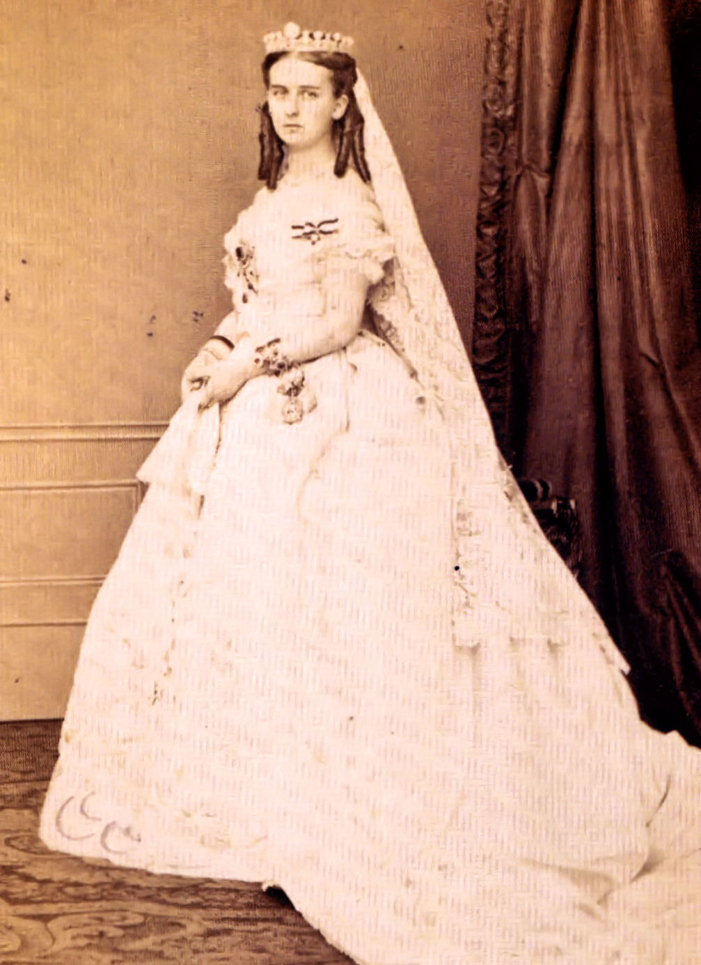 Portrait of Princess Marie of Hohenzollern-Sigmaringen (1845-1912)